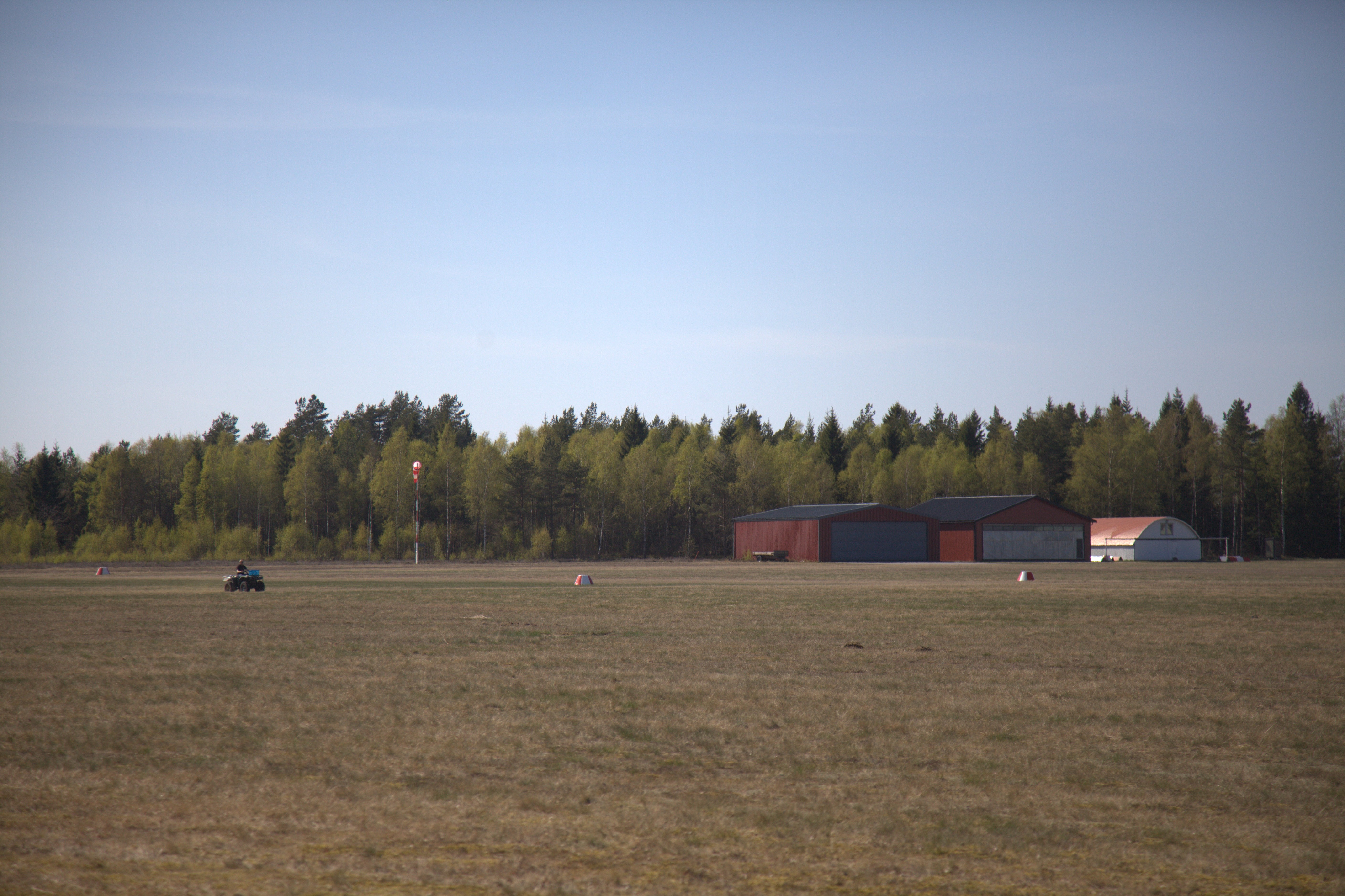 Backamo flygfält outside Stenungsund